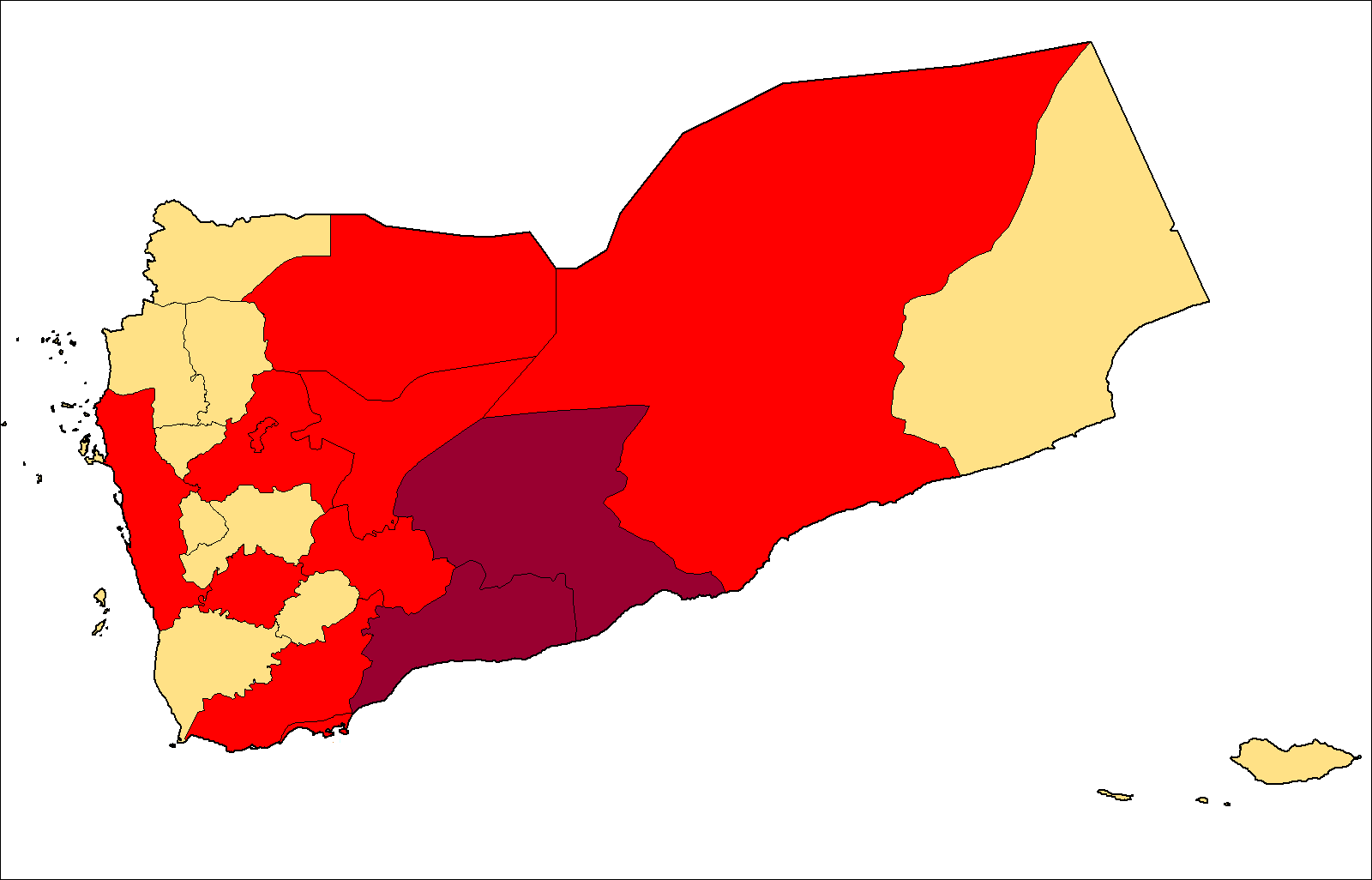 Shows provinces where Yemeni launched a crackdown against al-Qaeda terrorists